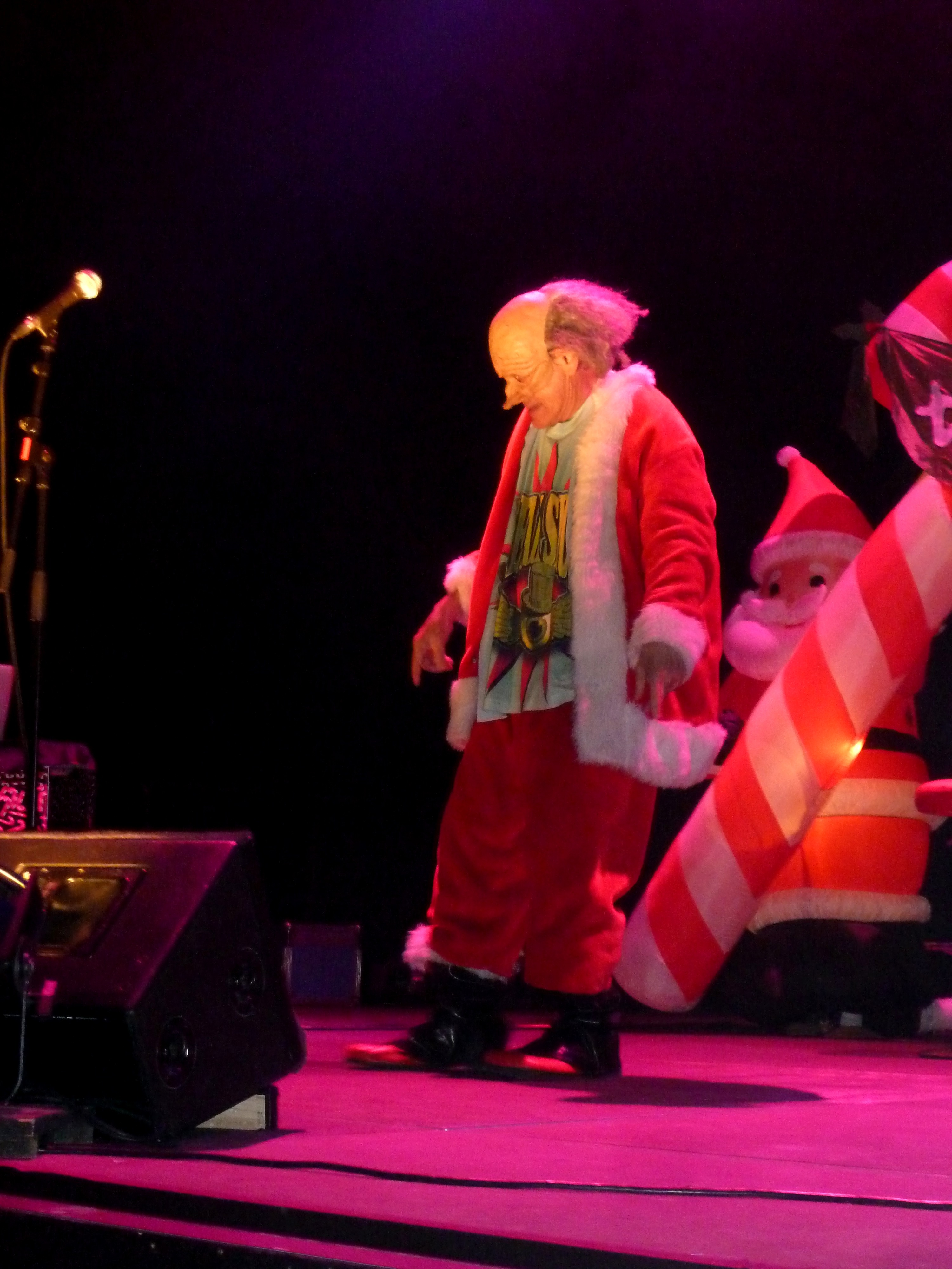 The Residents 2013